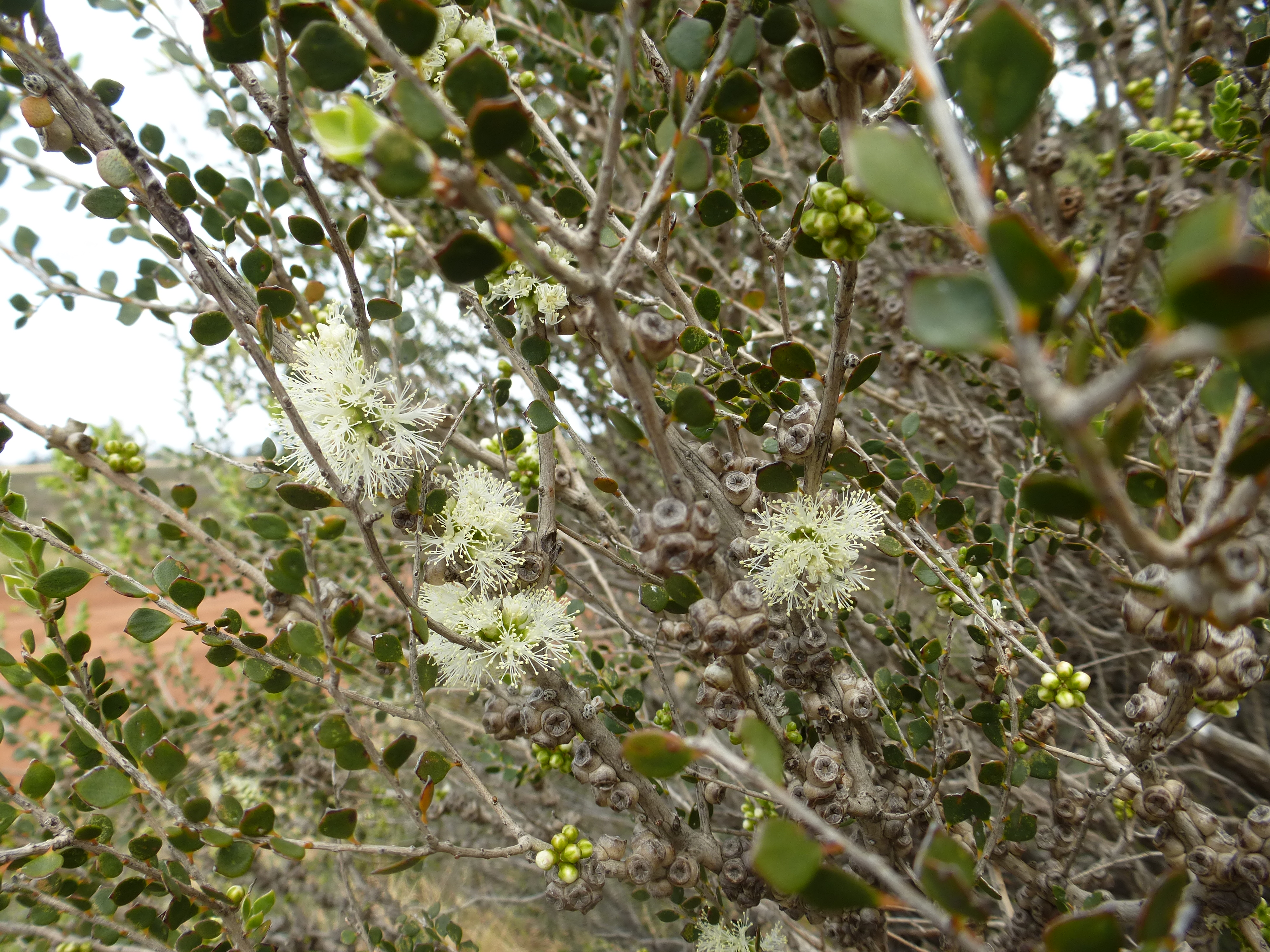 Melaleuca lateriflora growing 13 km E of Wagin